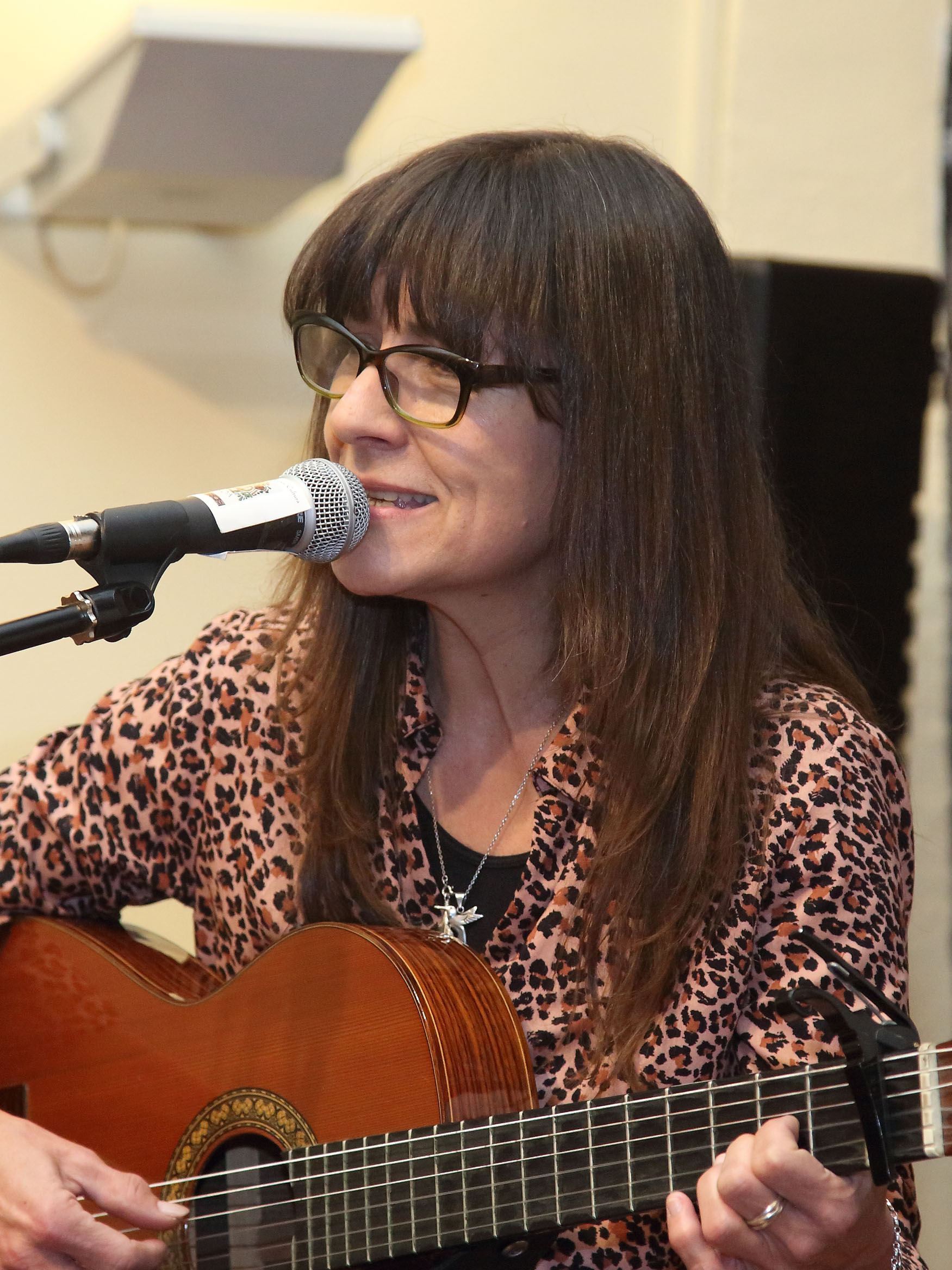 Toledo, 25 de marzo de 2019.- La artista, Cristina Narea, durante la interpretación de una de sus canciones en la presentación del III Certamen de Canción de Autor, en el Castillo de San Servando. (Foto: Álvaro Ruiz // JCCM)